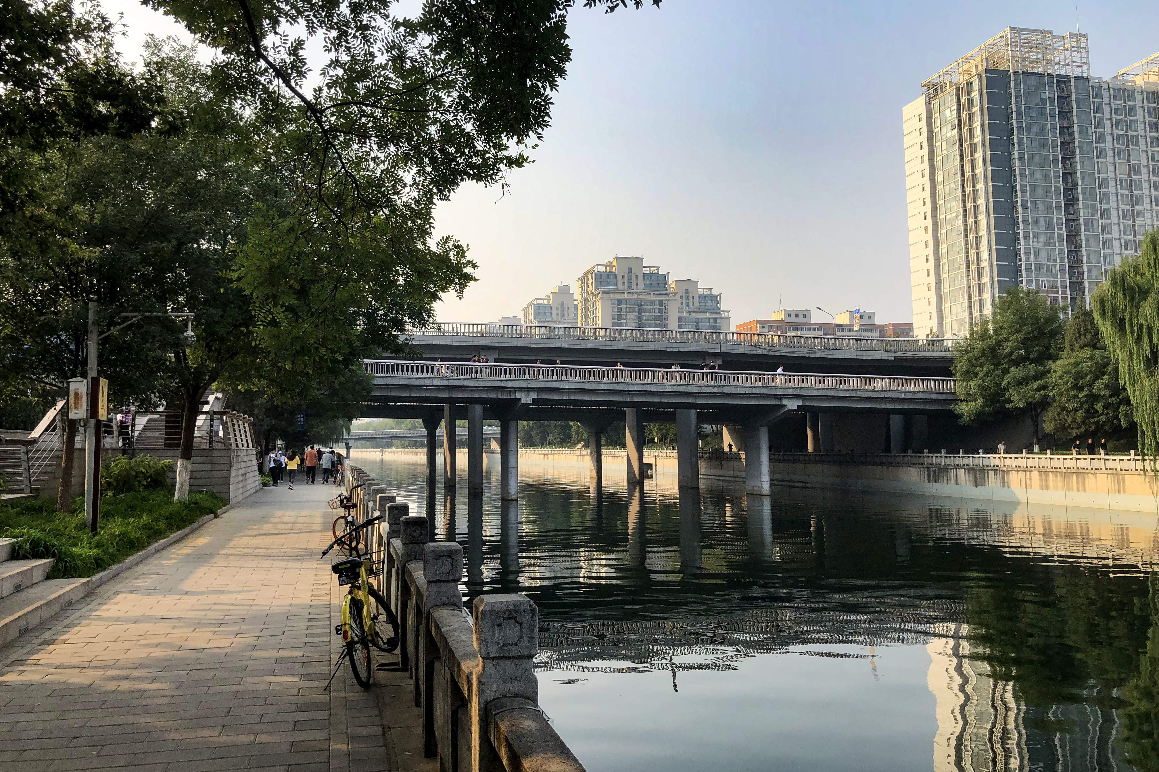 Crosses the moat.